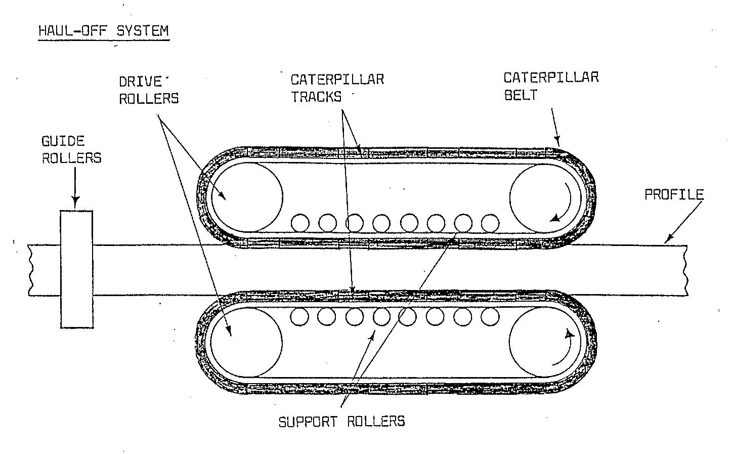 Demonstration of the Caterpillar Haul-Off